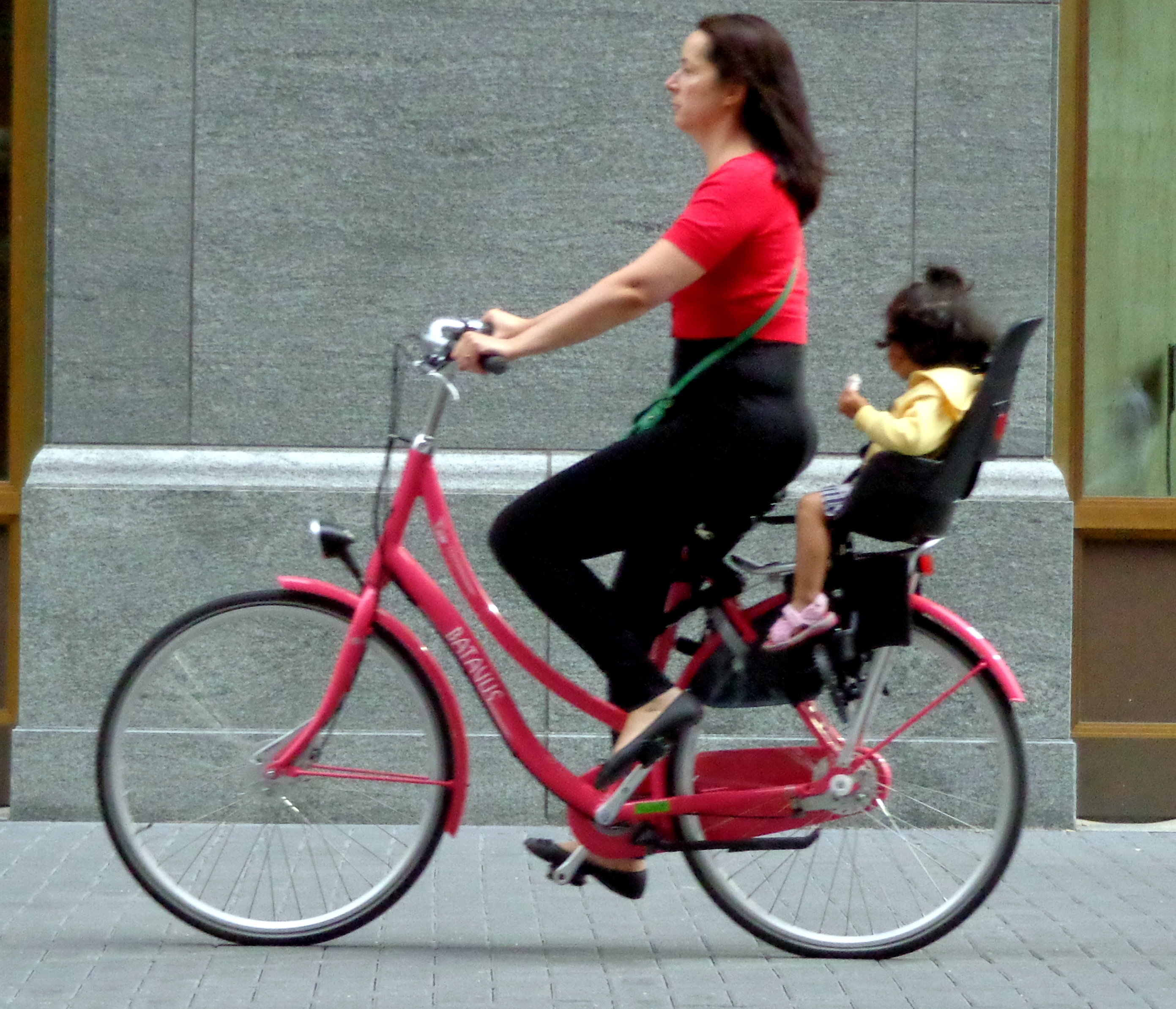 Bicycle in The Hague city-centre